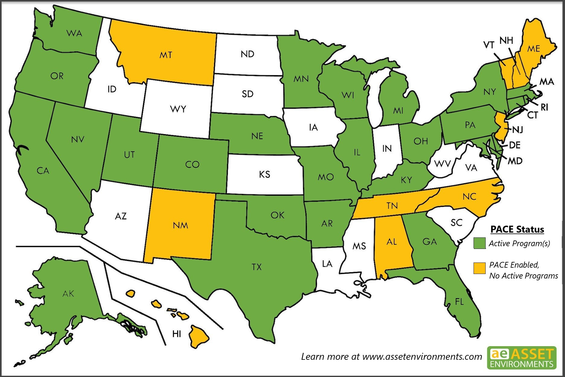 Original Map with updated PACE Financing Location Information. Designed by Craig Inzana for Asset Environments, a PACE Financing project management, and assessment company.